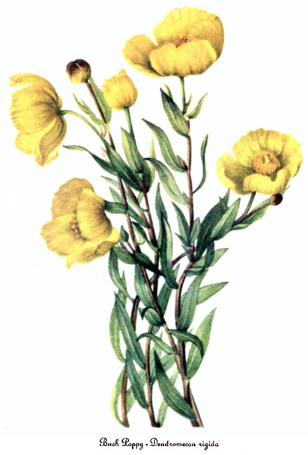 Watercolor painting of Dendromecon_rigida.